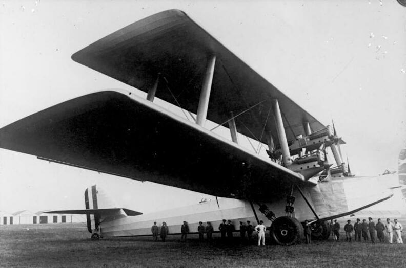 The aircraft is a Caproni Ca.90, first flight 1929